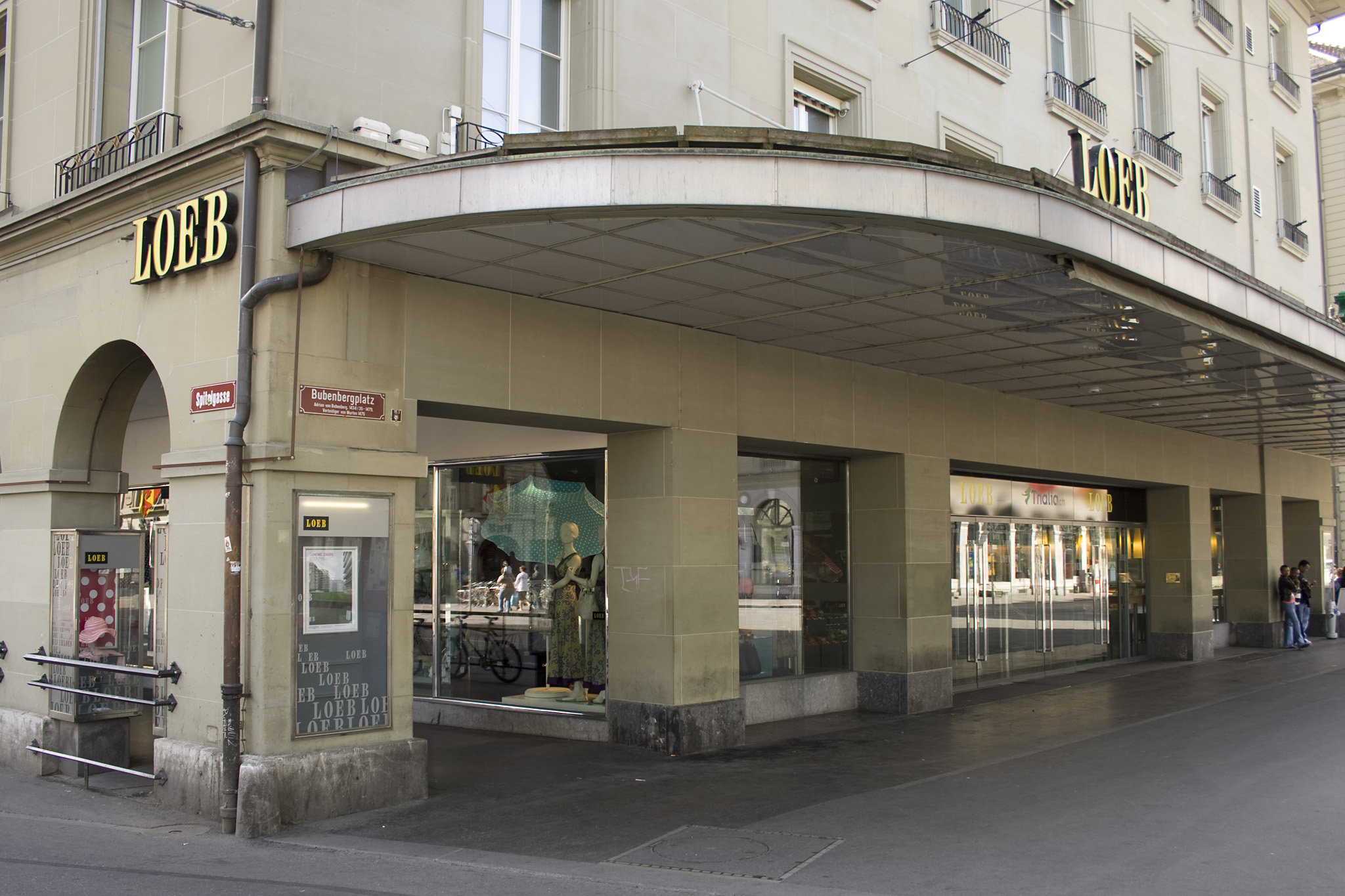 Loebegge (Loeb corner) at the corner of Spitalgasse, Bubenbergplatz and Bahnhofplatz, Bern, Switzerland. A common meeting point for Berners